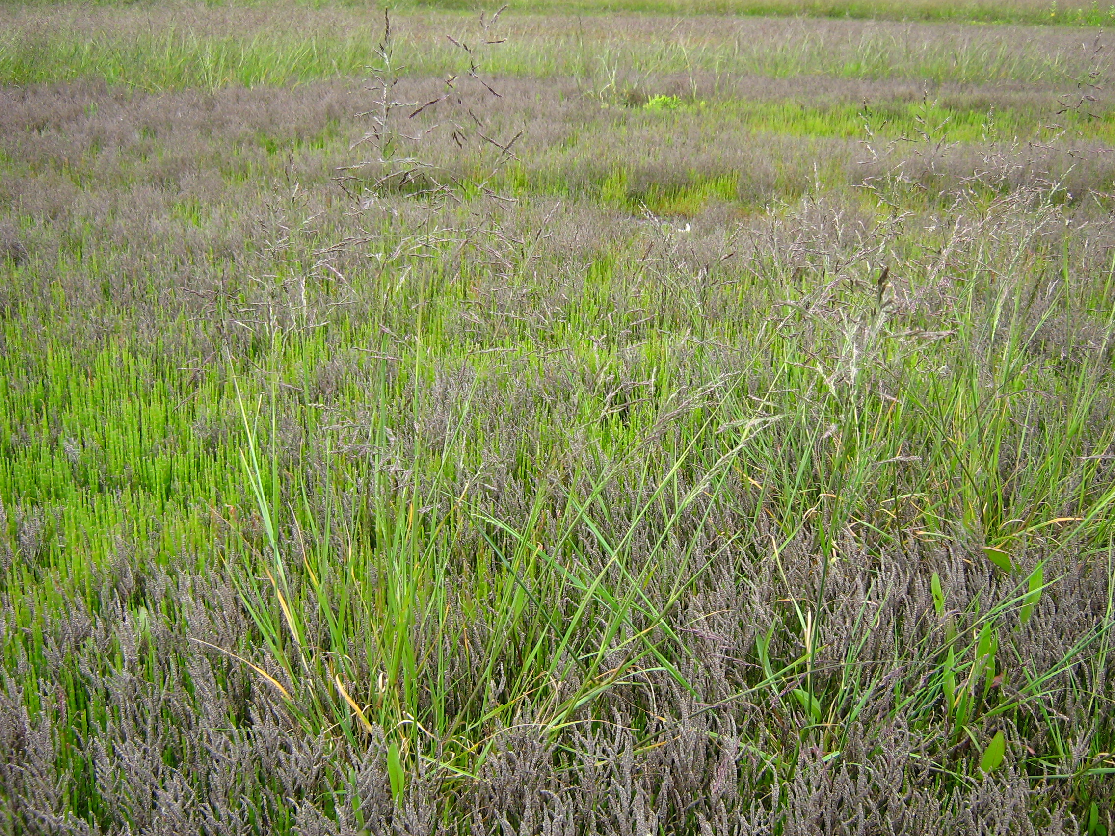 Inland salt-marsh community of Reflexed Saltmarsh-grass (Puccinellia distans) and glaswort (Salicornia europaea). The area near salt-sodium industry factory. Poland.